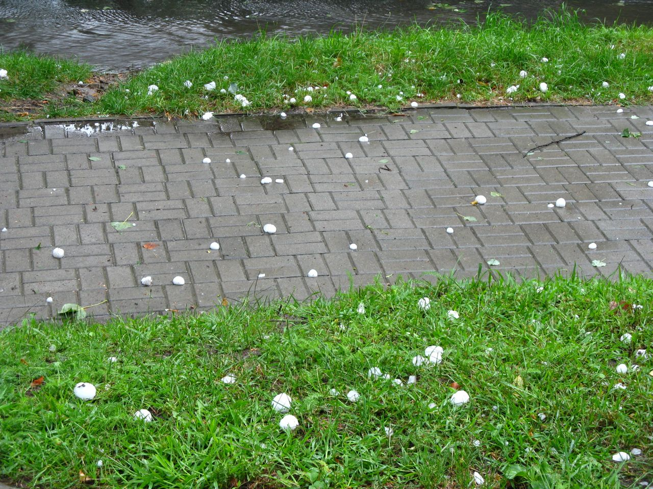 Hail, Katowice, 15 august 2008